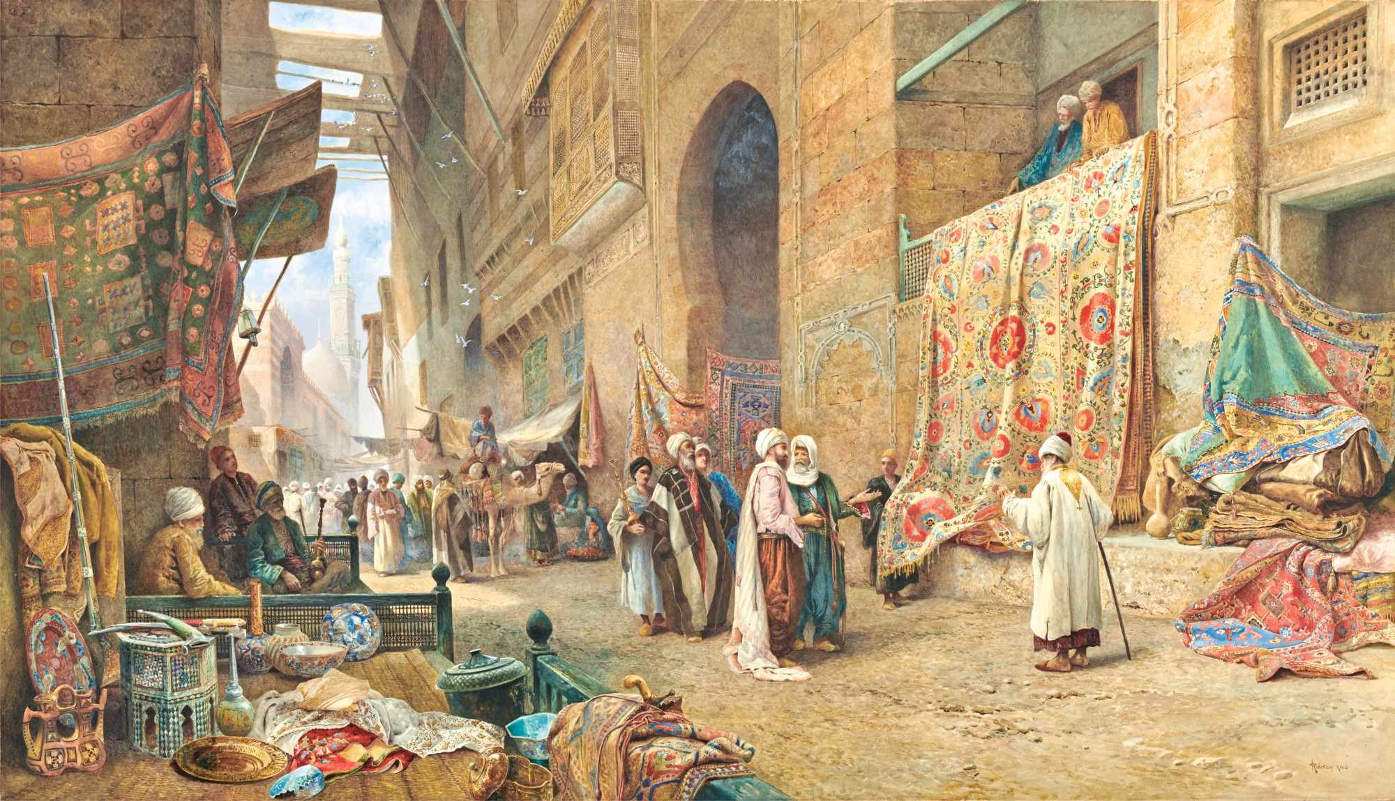 A Carpet Seller, Cairo by Charles Robertson, watercolor and gouache over pencil on paper, 79 by 135 cm., 31 by 53 in.